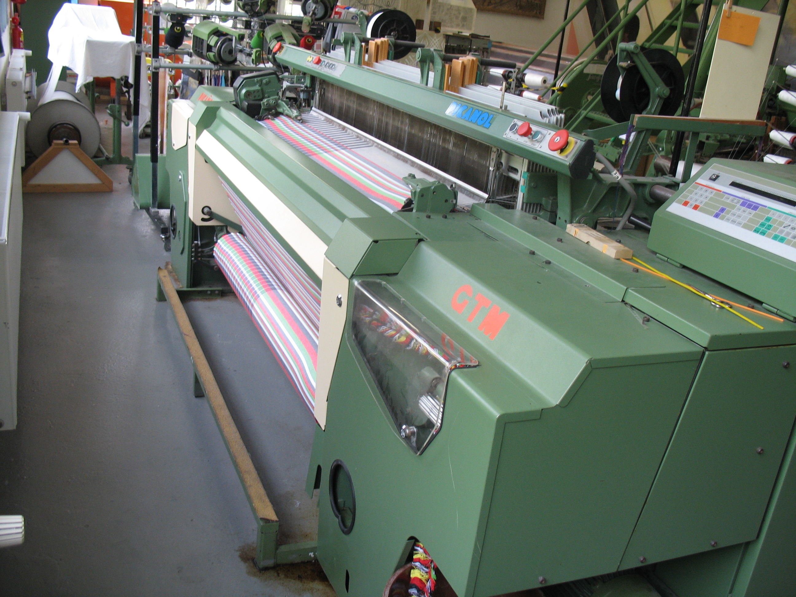 Rapier weaving machine (year of construction 1988)in the City Museum Nordhorn, Germany